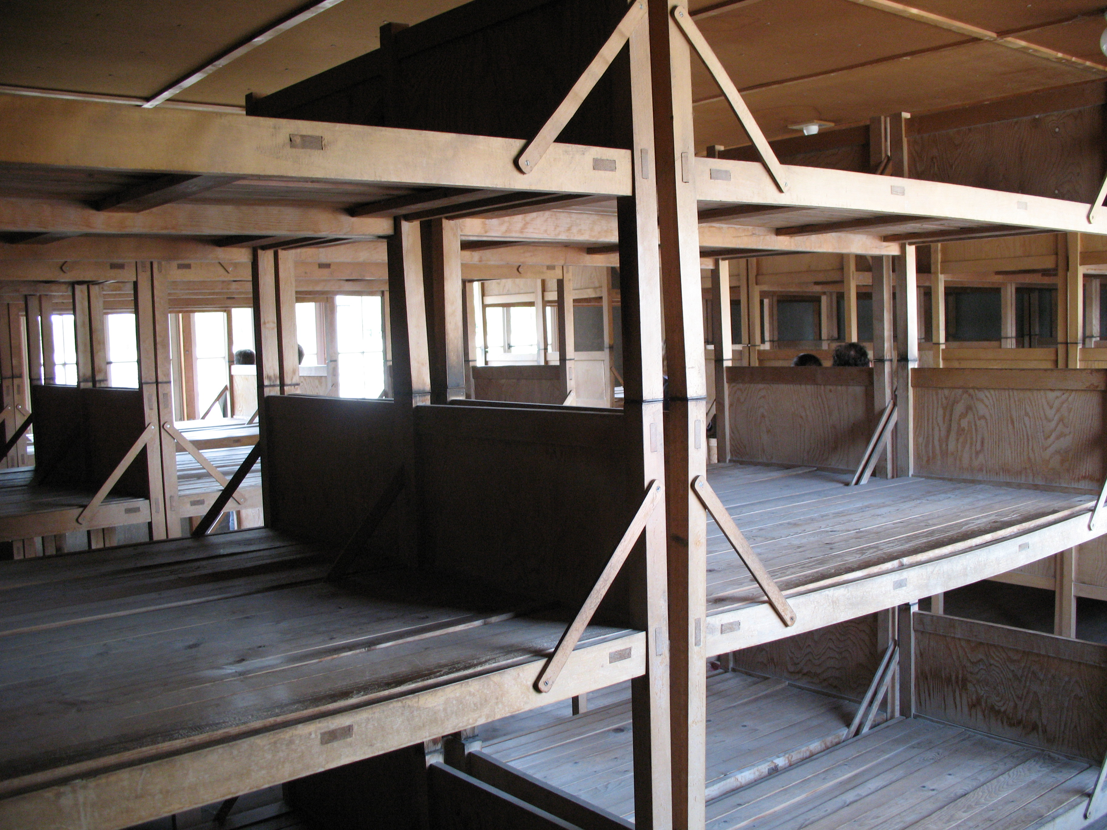 Prisoner's beds, Dachau Concentration CampDachau, Germany - Google Maps - Google Earth